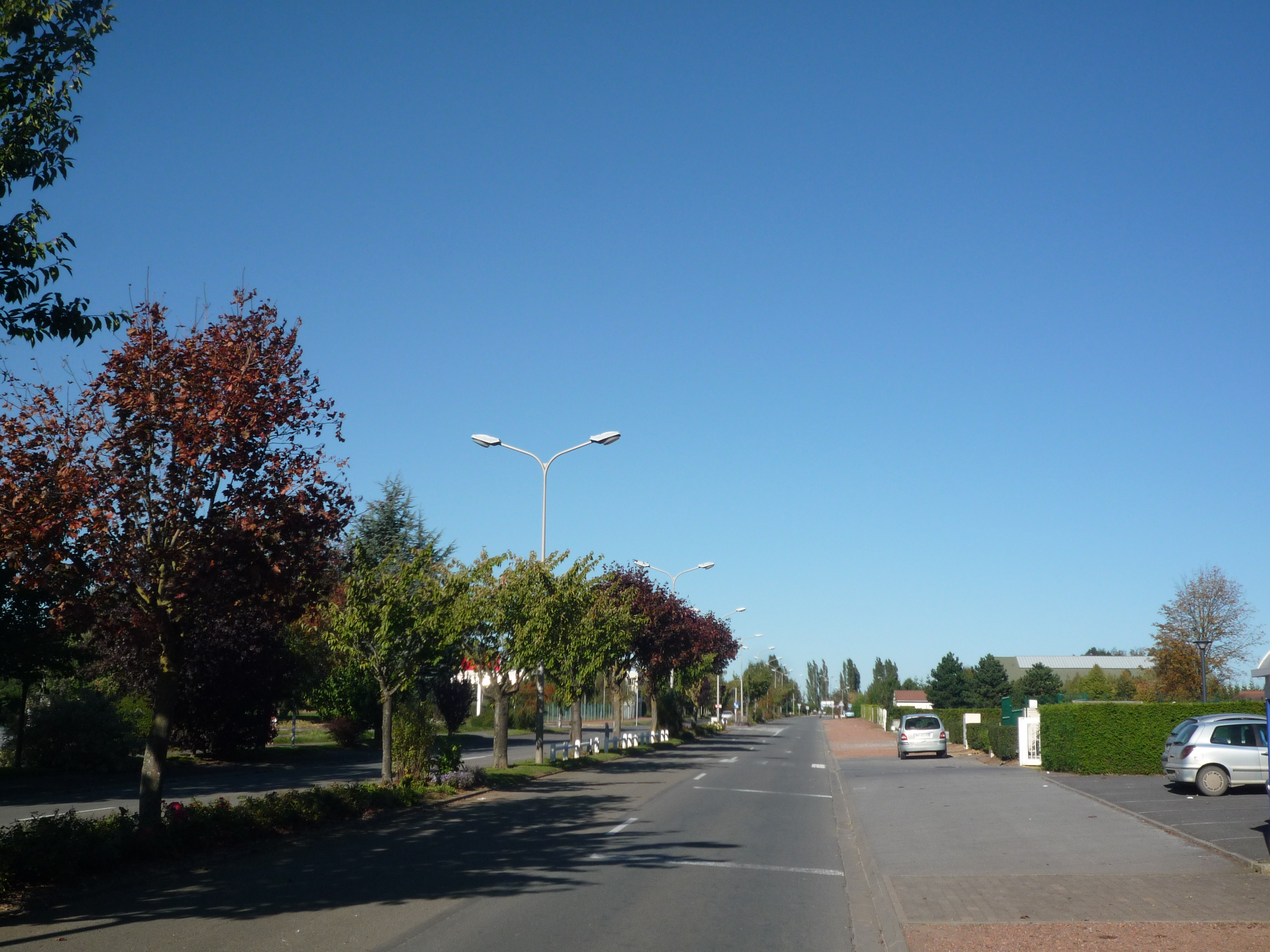 Caudry, Nord-Pas-de-Calais, France.